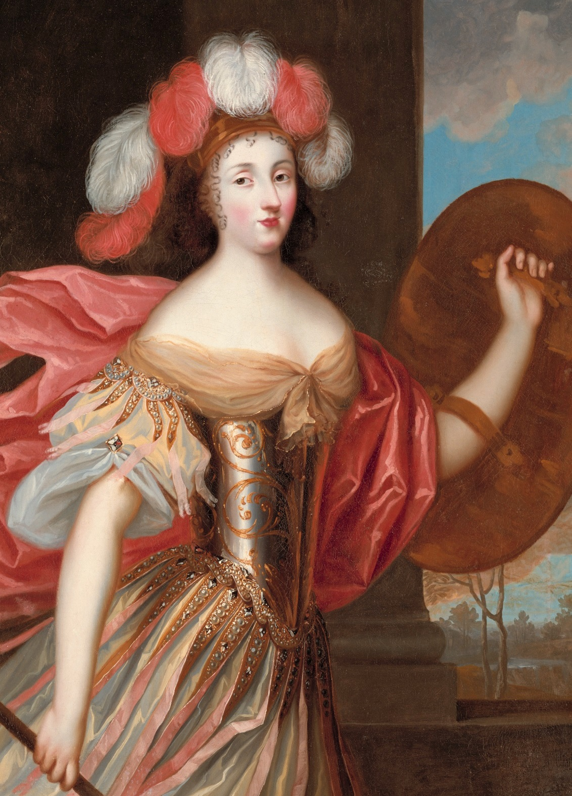 Portrait of Olympia Mancini (1638-1708), comtess of Soissons depicted as Athena